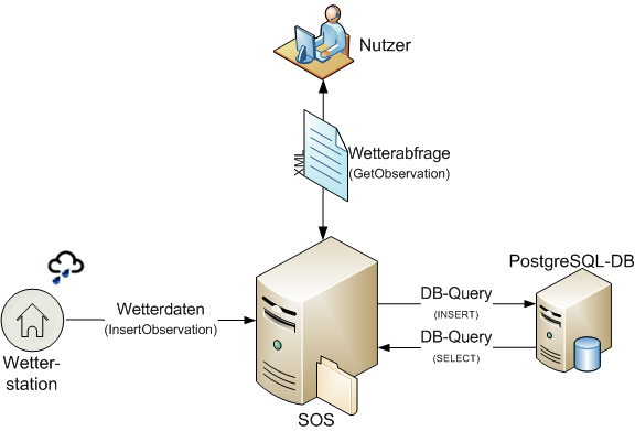 XML, DB-Query, Sensor Observatin Service, SOS, weather, weatherstation